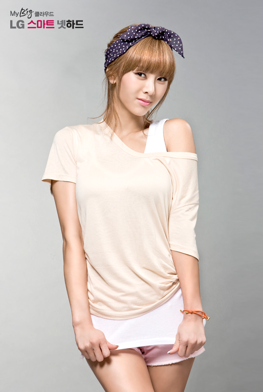 Korean singer G.NA at LG Smart Nethard advertisement photograph.